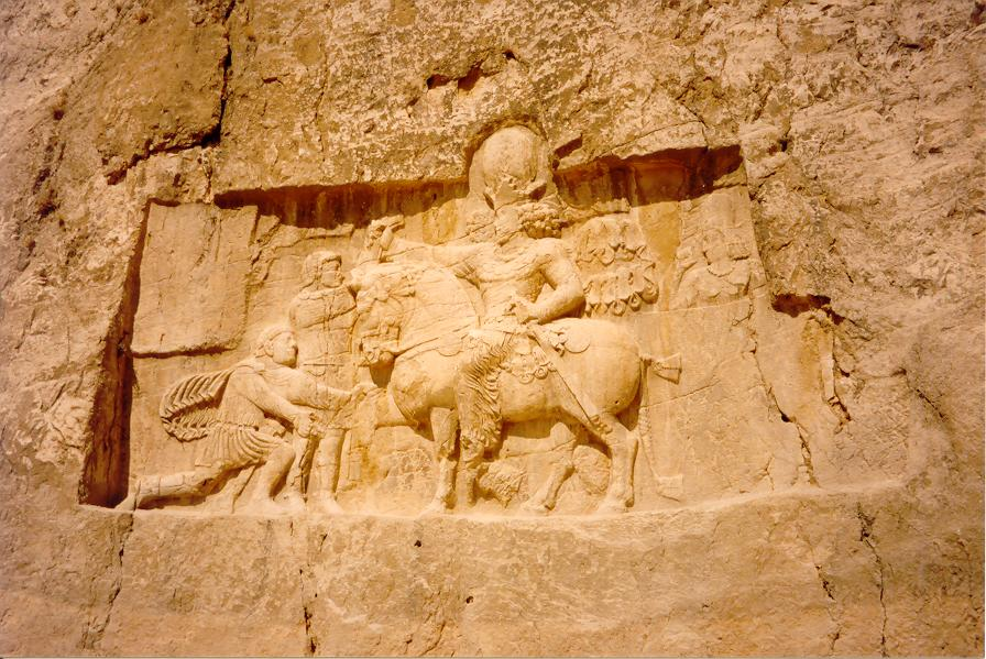 — A bas relief of Roman Emperor Philip the Arab kneeling down before Shapur I. Emperor Valerian is standing at the background and is held captive by Shapur. Found at Naghsh-e Rostam, Shiraz, Iran.